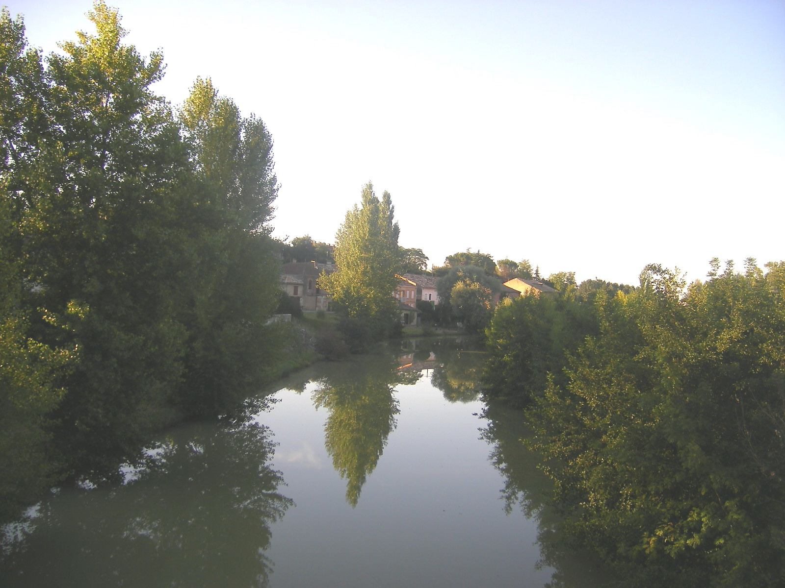 The Gimone river at Larrezet (Tarn-et-Garonne)